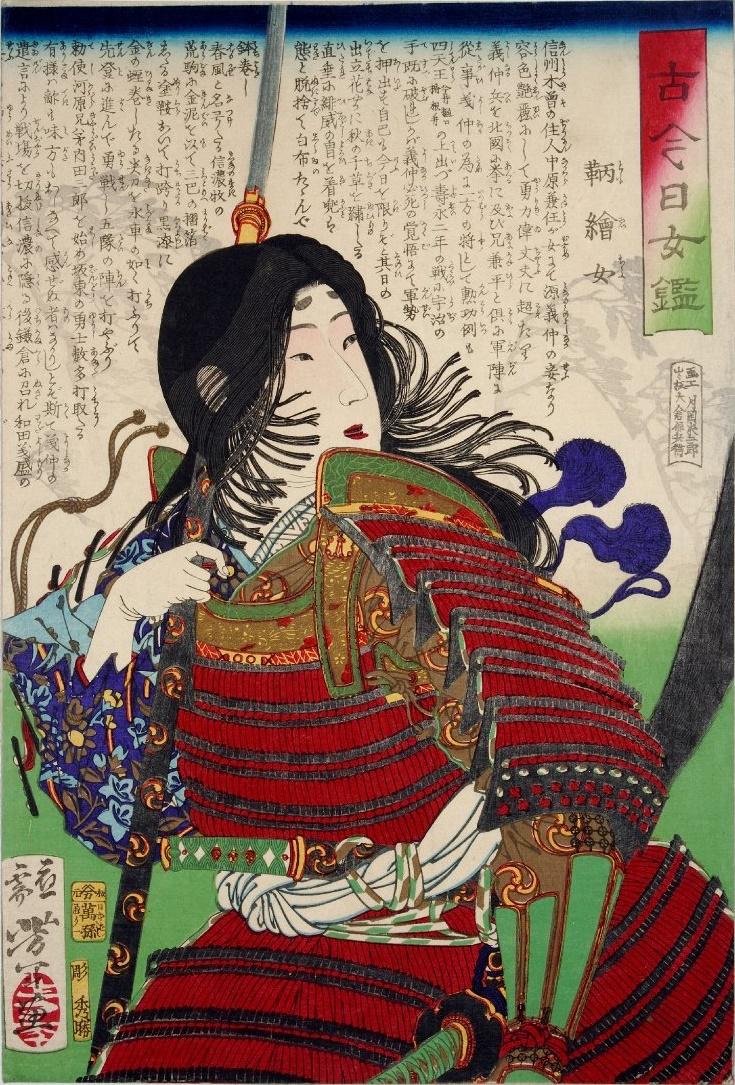 Tomoe onna(Tomoe Gozen), from the series Mirror of Beauties Past and Present.